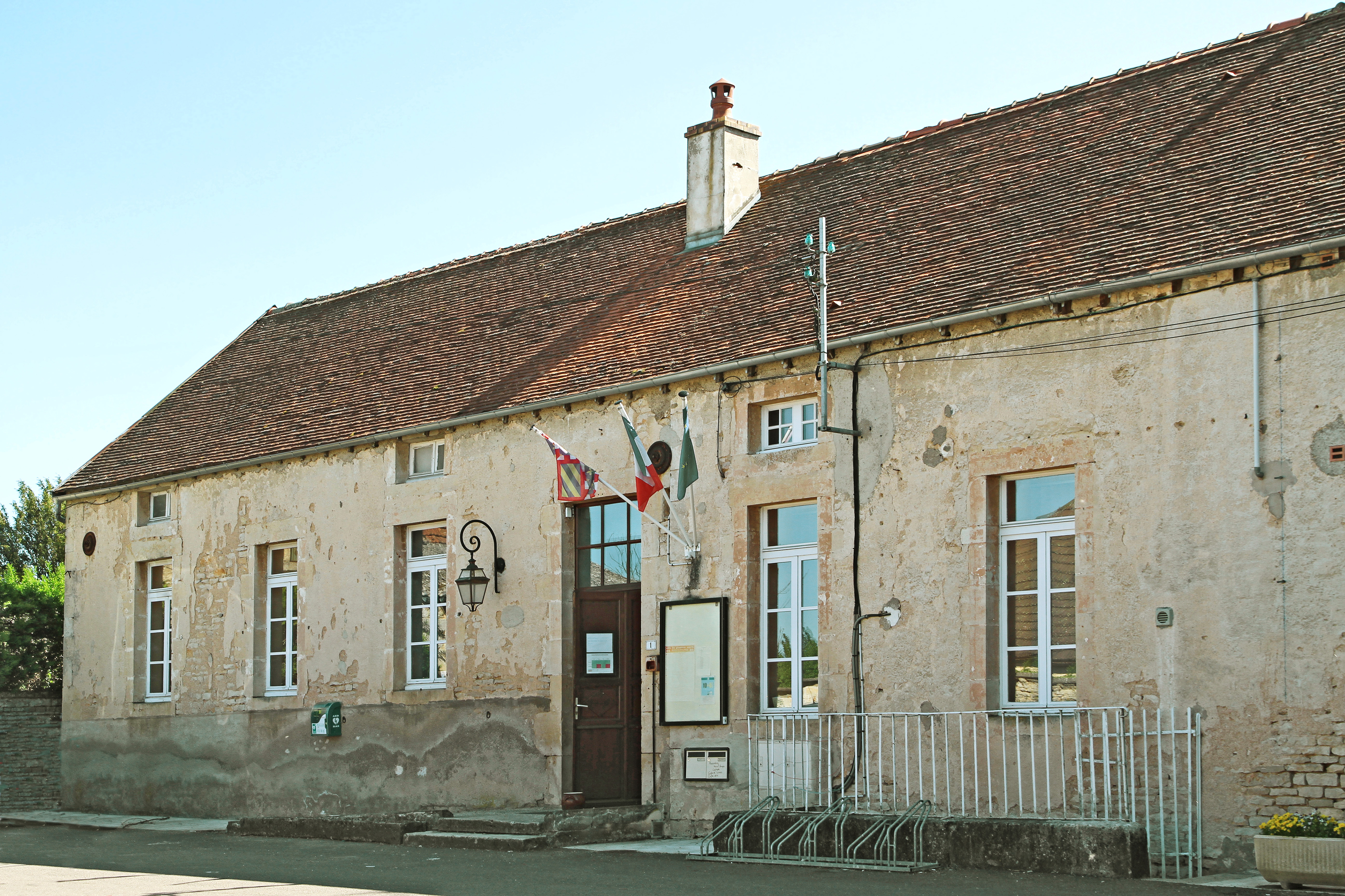 Townhall of Baigneux-les-Juifs